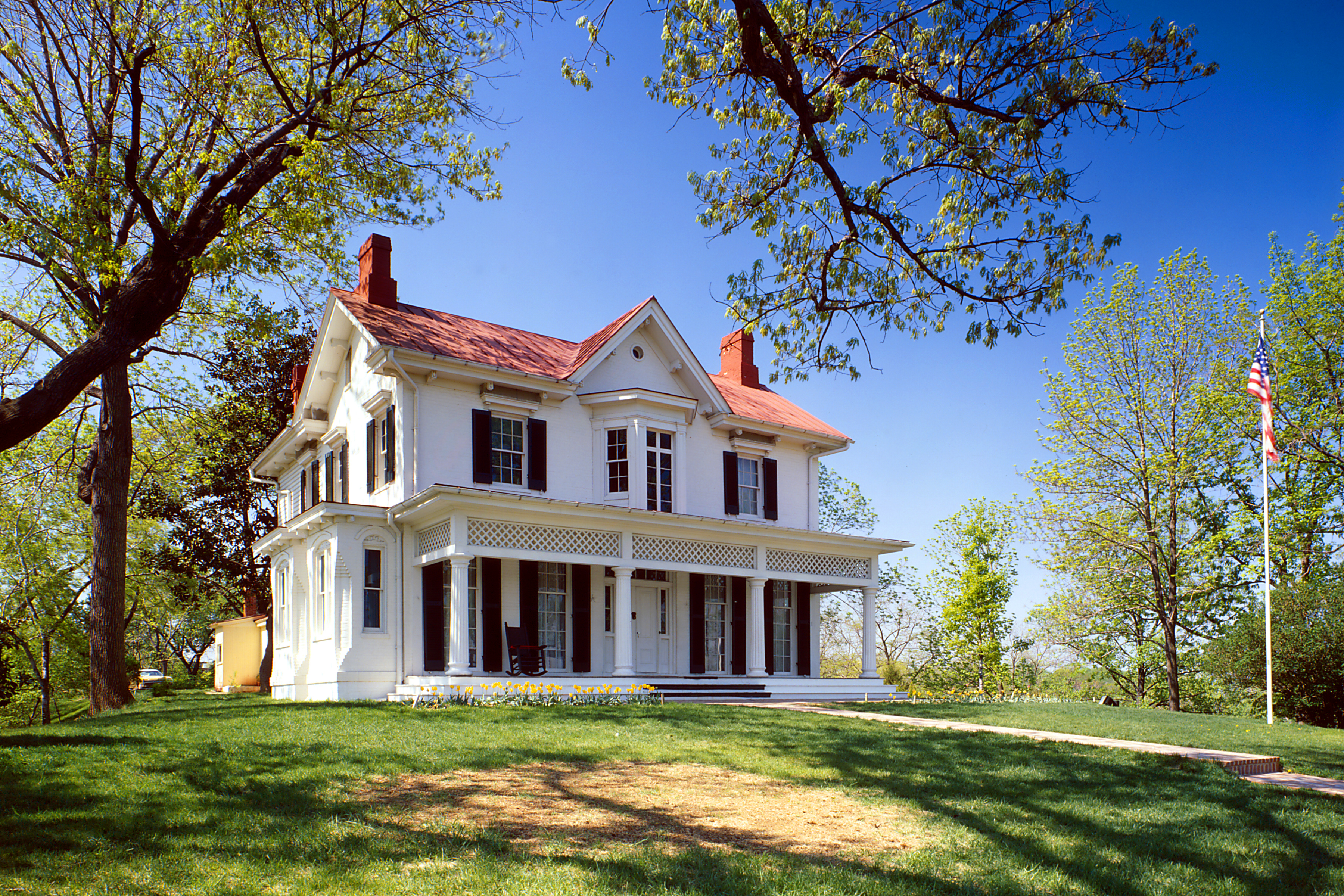 Frederick Douglass House, 1411 W Street, Southeast, Washington, District of Columbia, DC North elevation looking southwest